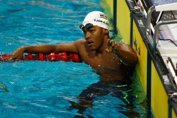 Wiki Image